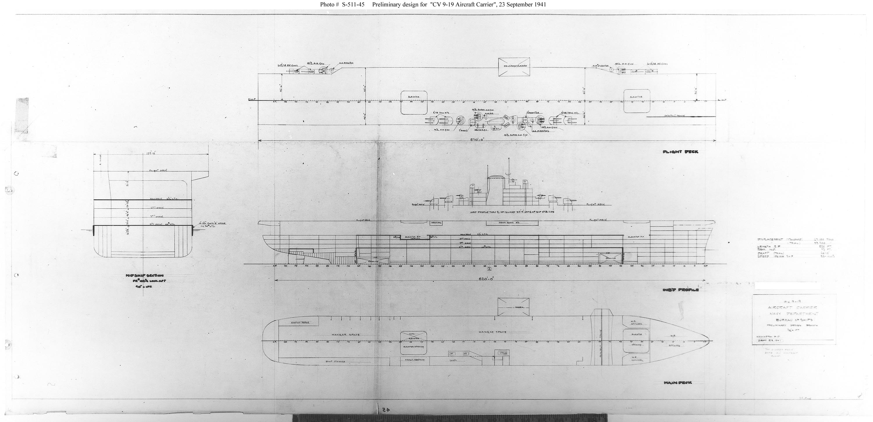 From [1] Design plan of the US Navy Essex class aircraft carriers